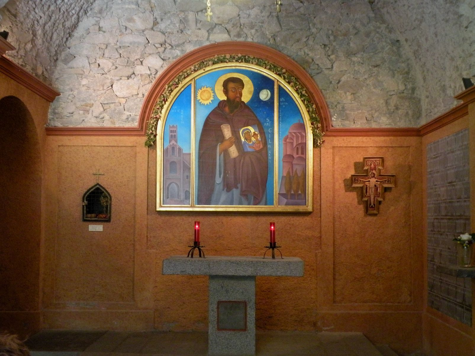 Hermitage of Saint Gil, interior